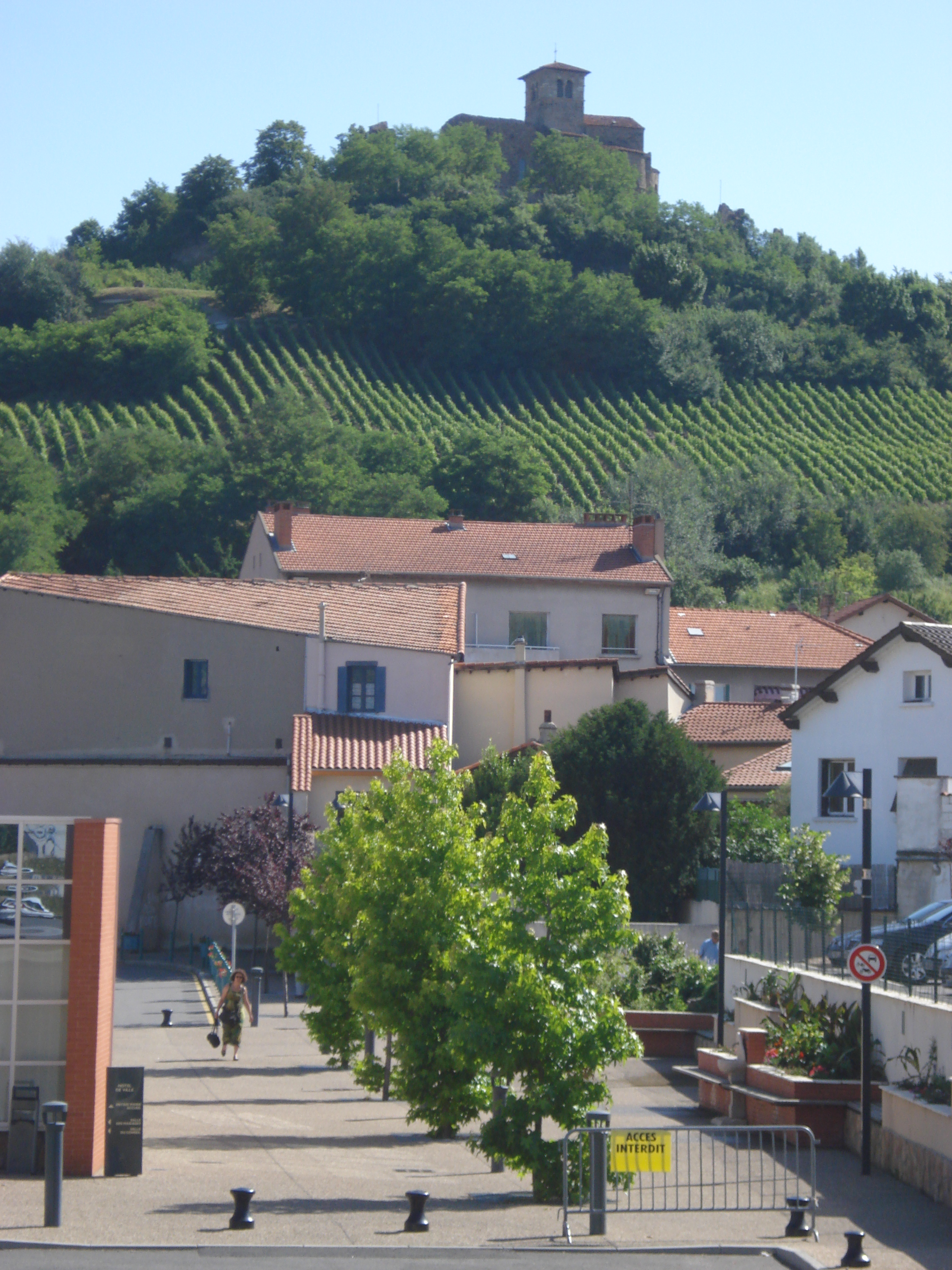 Saint-Romain-le-Puy (Loire,_Fr), village and church of monastery